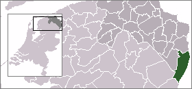 Locator map of Dutch municipalities in Groningen (LocatieVlagtwedde.png)